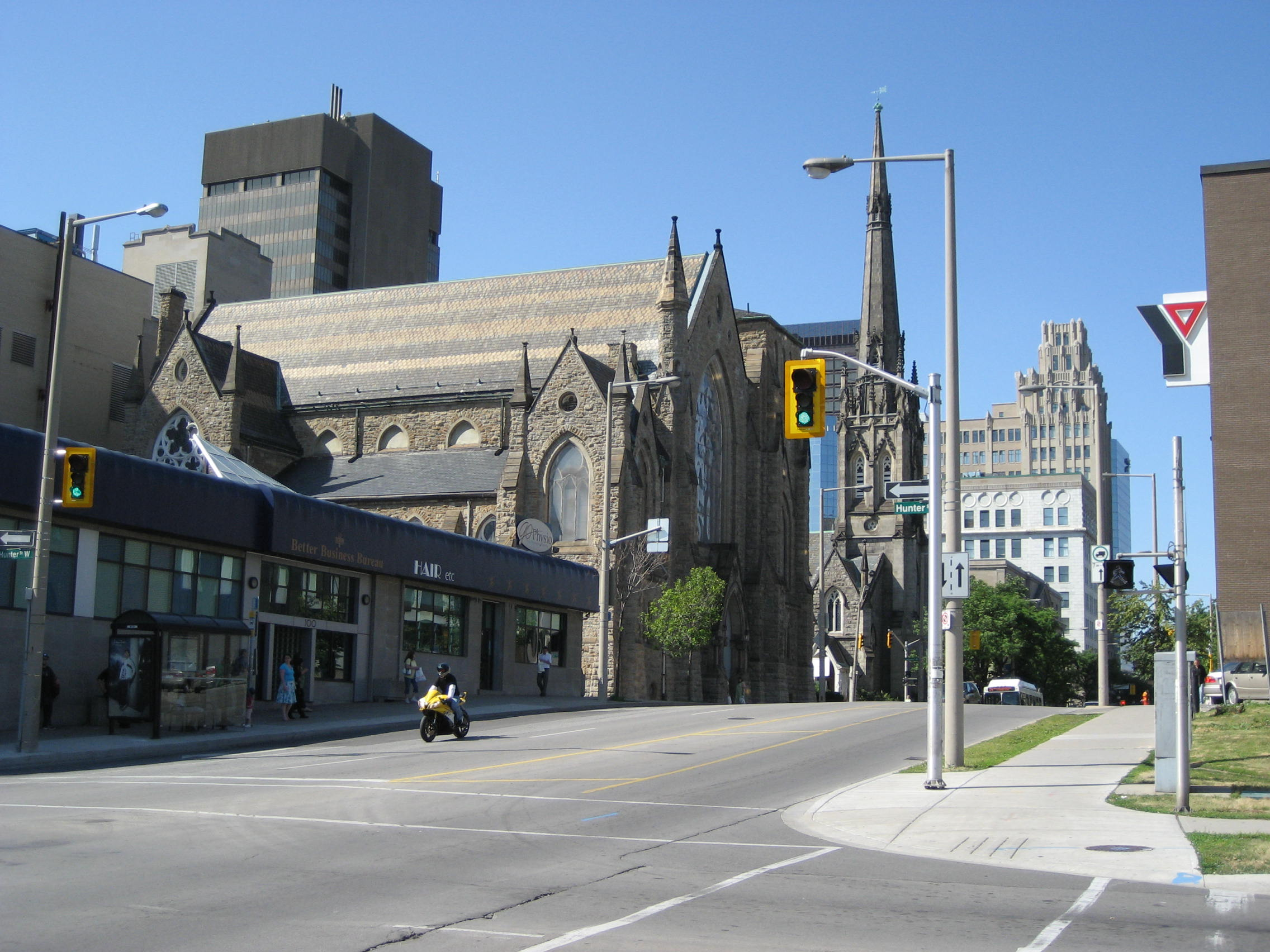 Former James Street Baptist Church. North of the T.H. & B. Railway Bridge, downtown Hamilton. Condo since 2014.